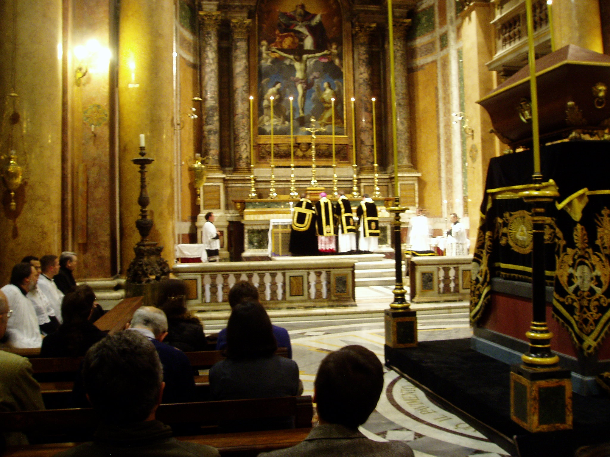 Pontifical Requiem Mass in "Santissima Trinità dei Pellegrini" church.